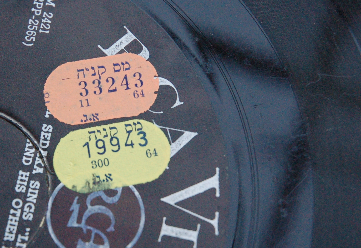 Sales tax labels on a record acquired in the early 60's